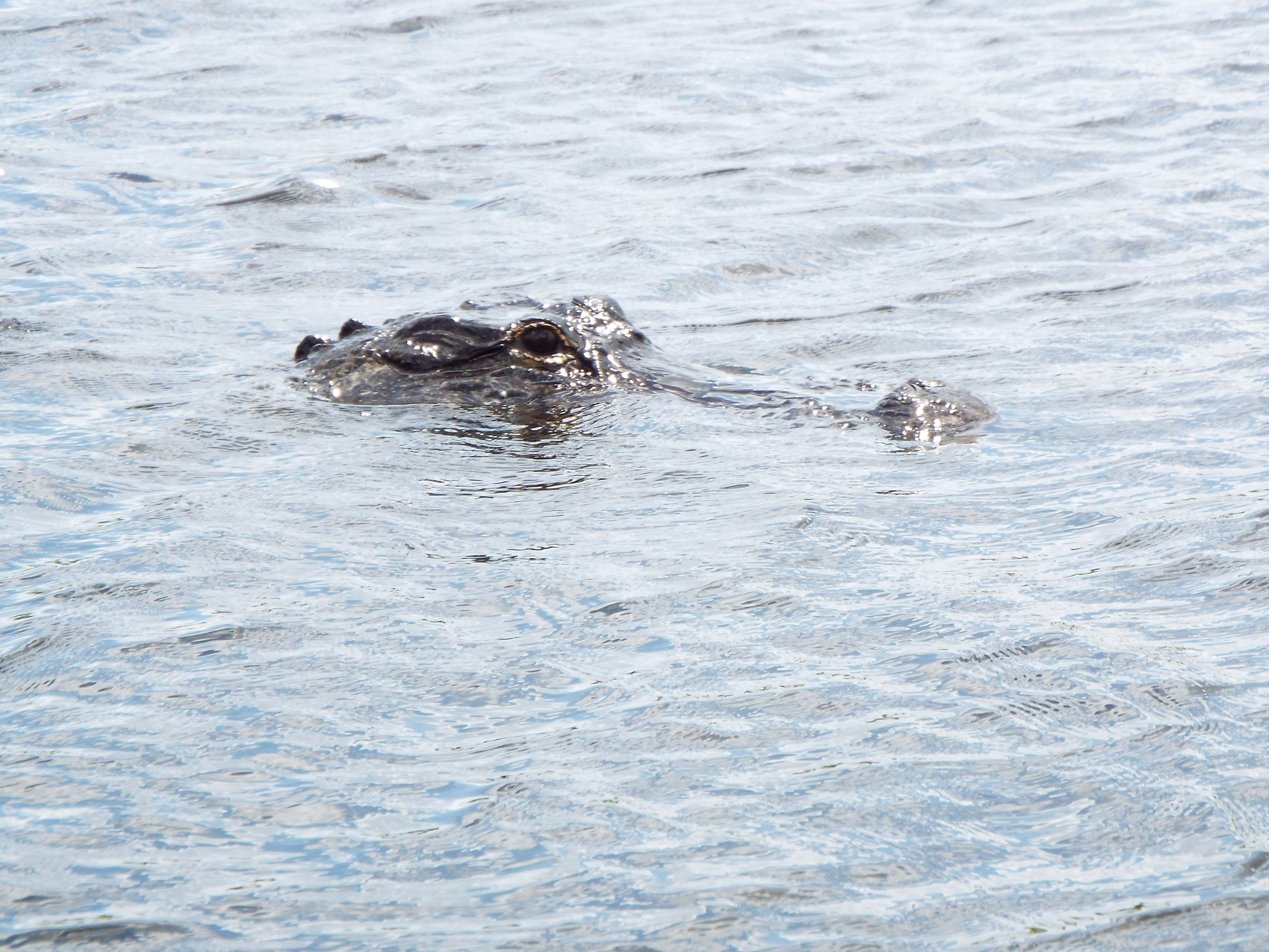 An alligator swimming in the Everglades National Park of Florida.